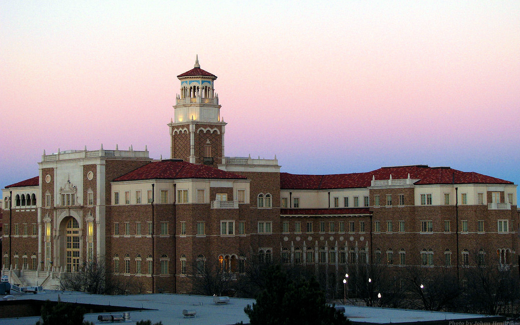 English and Philosophy building at Texas Tech University in Lubbock, Texas.